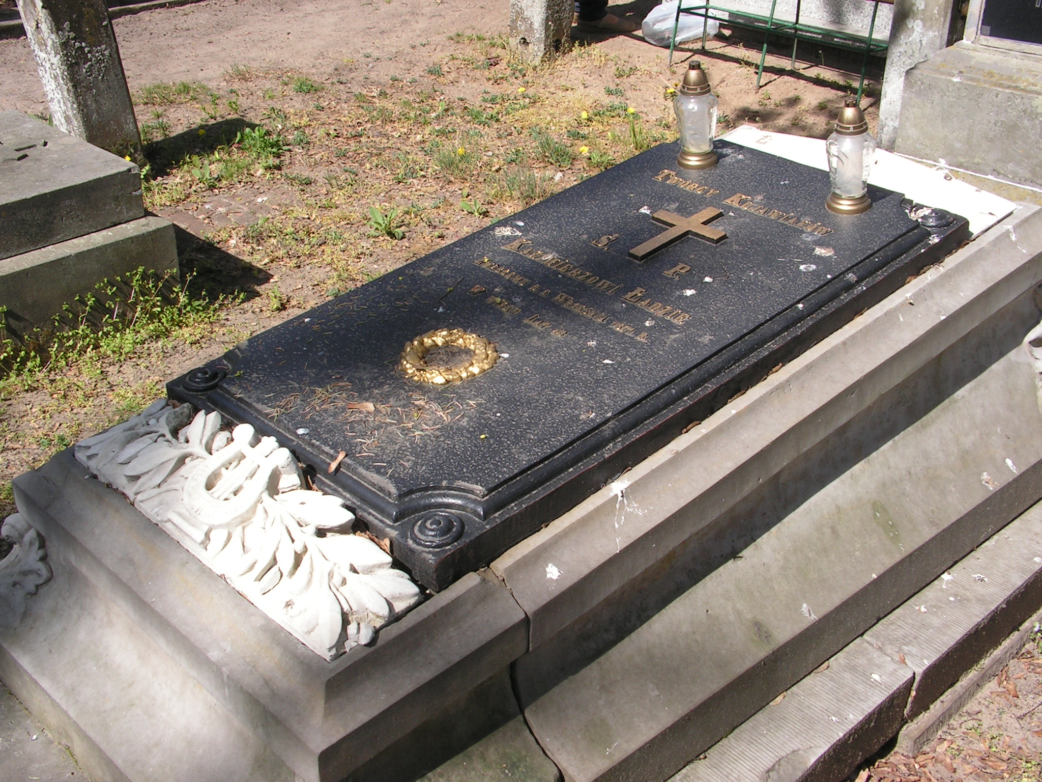 Grave of Kazimierz Łada on Communal Cemetery in Włocławek.